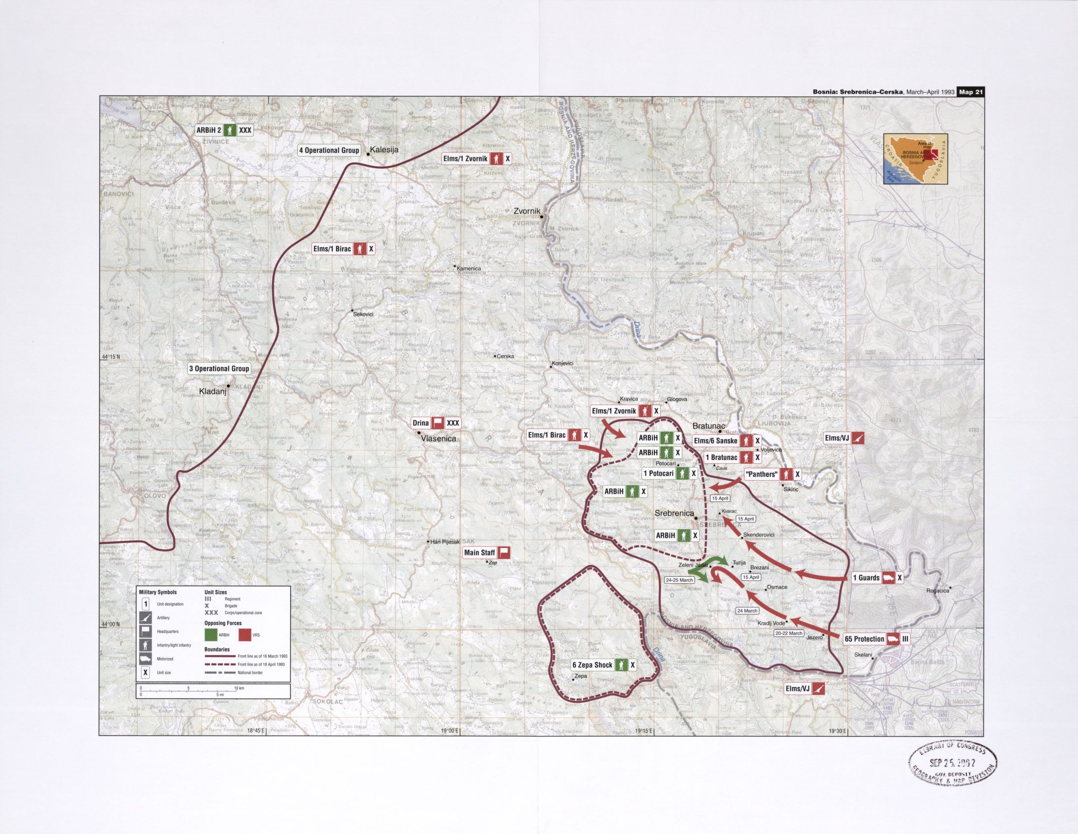 Map of the Operation Cerska 93, January 1993 - April 1993